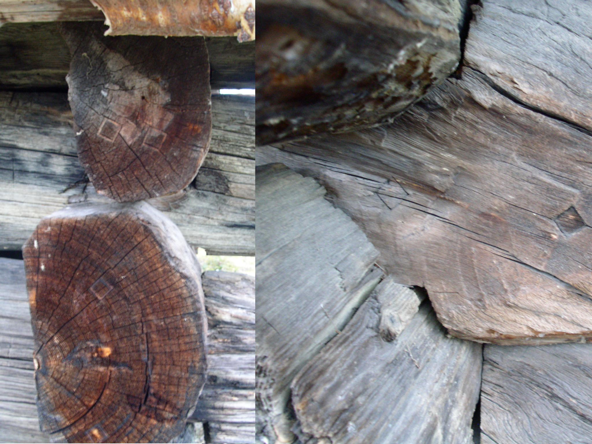 Square-formed "timber marks" for identifying the owner (Stora Kopparberg AB in this case) of each log when floating timber on Dalälven river, Sweden. These marks are now visible on logs which were used to replace bad ones when an old timber building was moved to its new location in an outdoor museum in 1913.